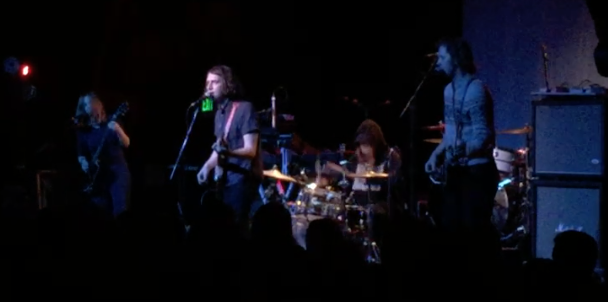 QTY at the Showbox in Seattle, October 15, 2017